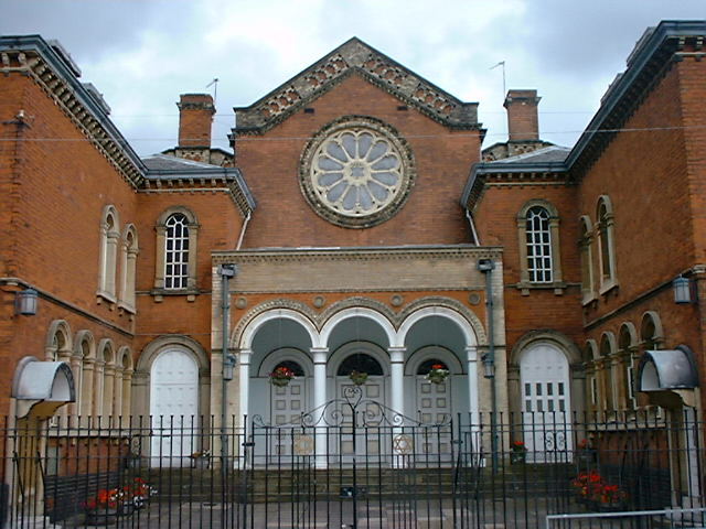 Singers Hill Synagogue, 26 Blucher Street, Birmingham, England, seen from the southwest